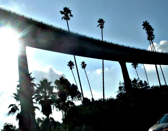 View of the 43rd St. Overpass near Interstate 805 from 47th St., Lincoln Park, Southeast San Diego, CA